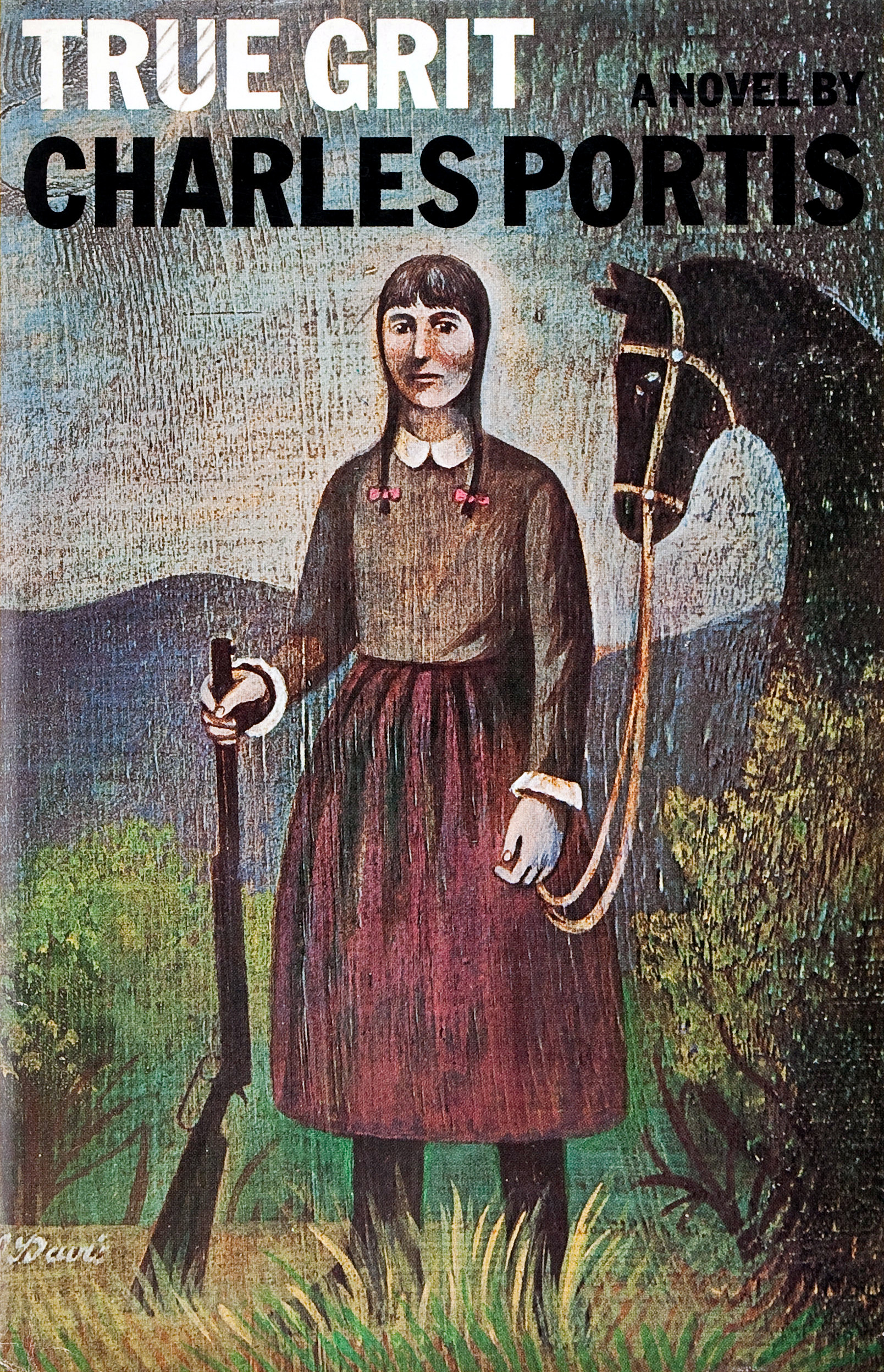 Cover design from the first-edition dust jacket of the 1968 novel True Grit by the American author Charles Portis. Published by Simon & Schuster.